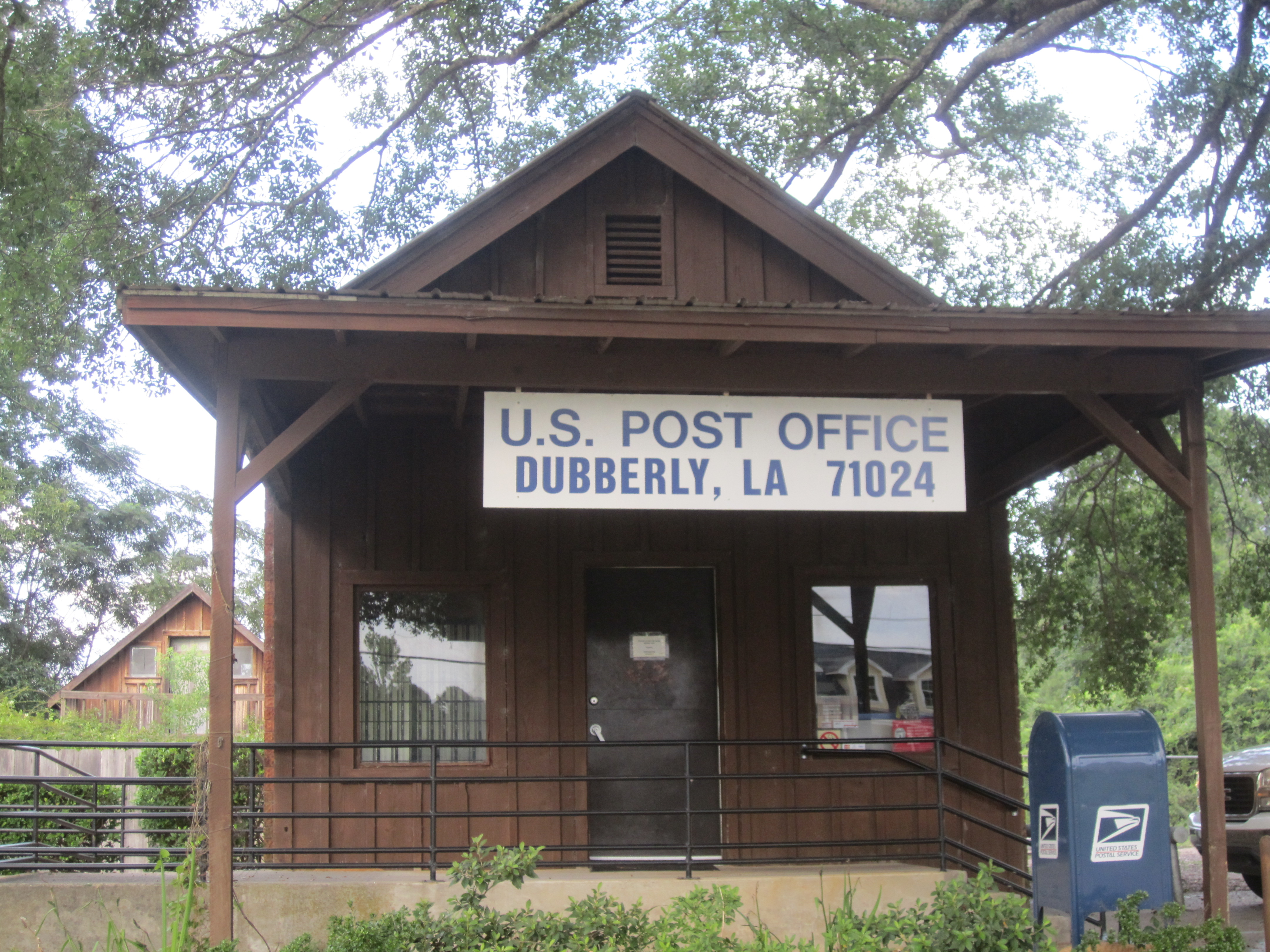 Wooden post office building, Dubberly, Webster Parish, Louisiana.